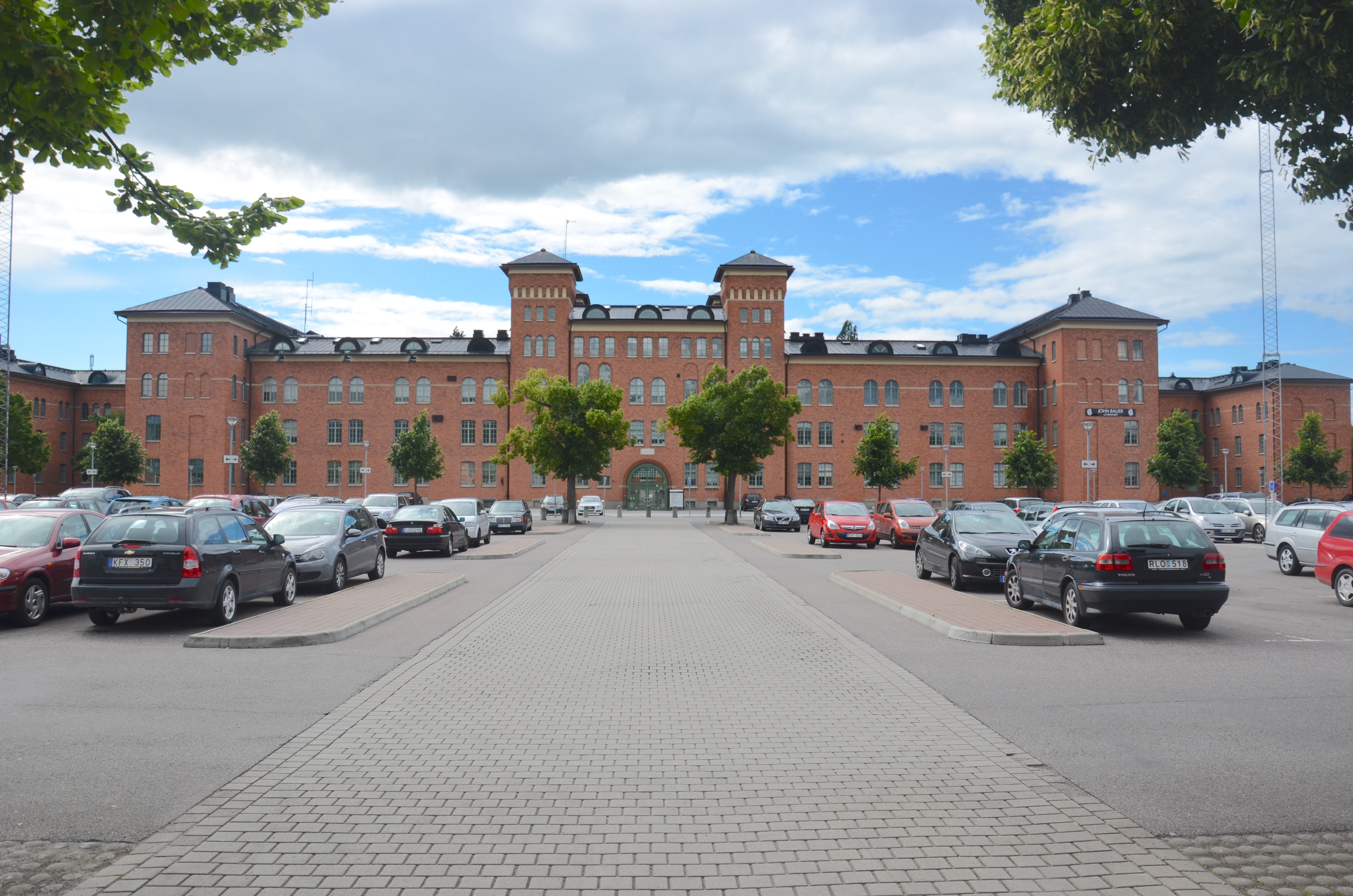 Earlier artillery regiment A6, Jönköping, Sweden, Main building.